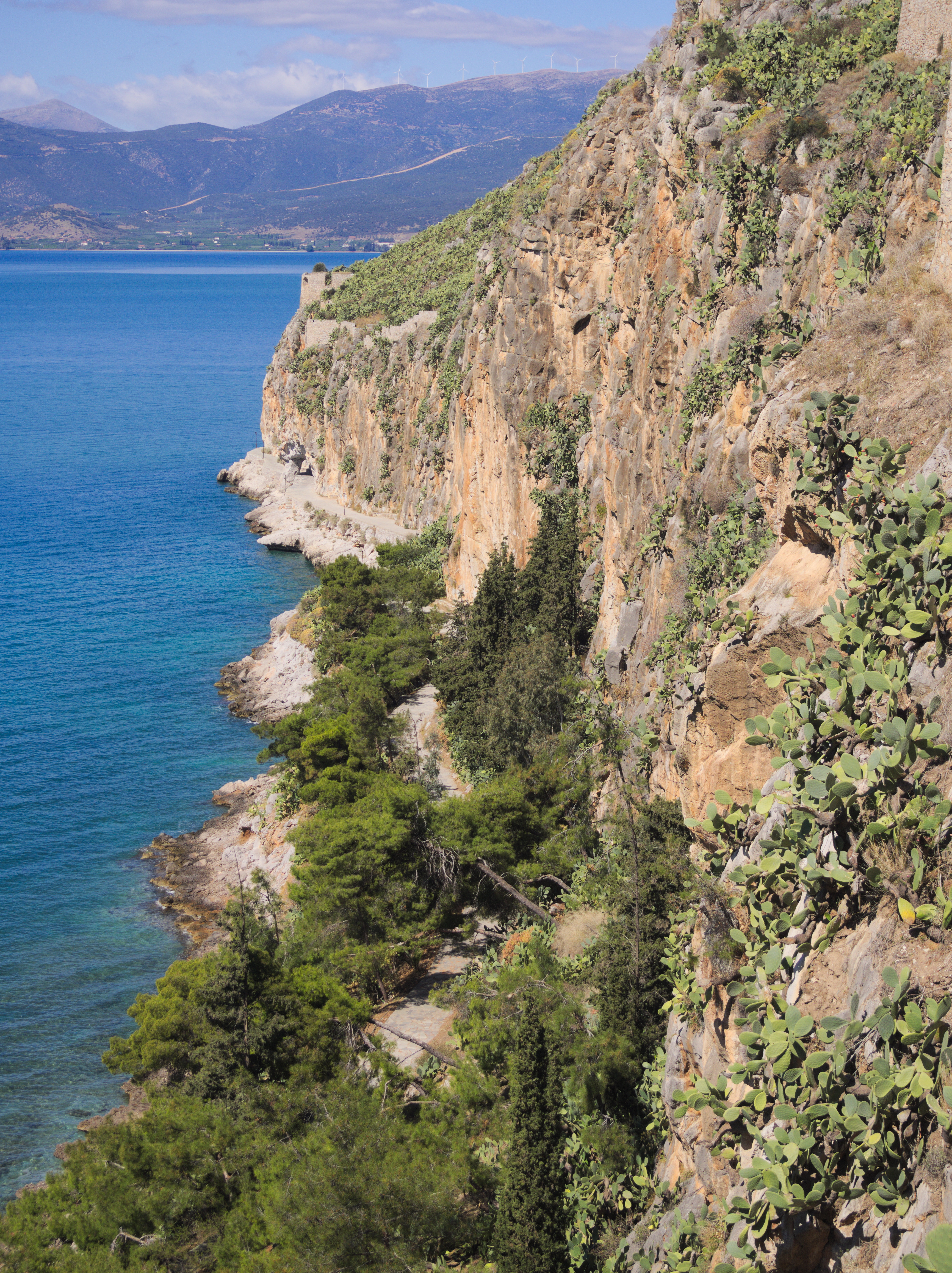 View of the south shore of Acronafplia. This is a photography of Natura 2000 protected area with ID GR2510003